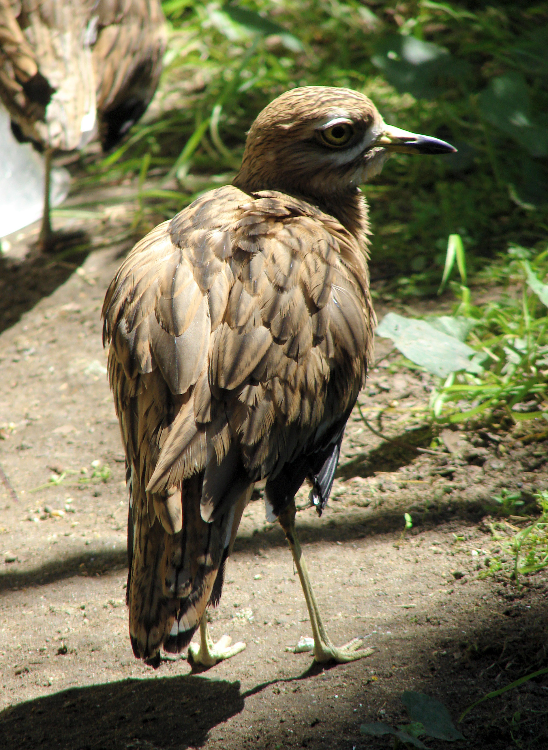 Stone Curlew